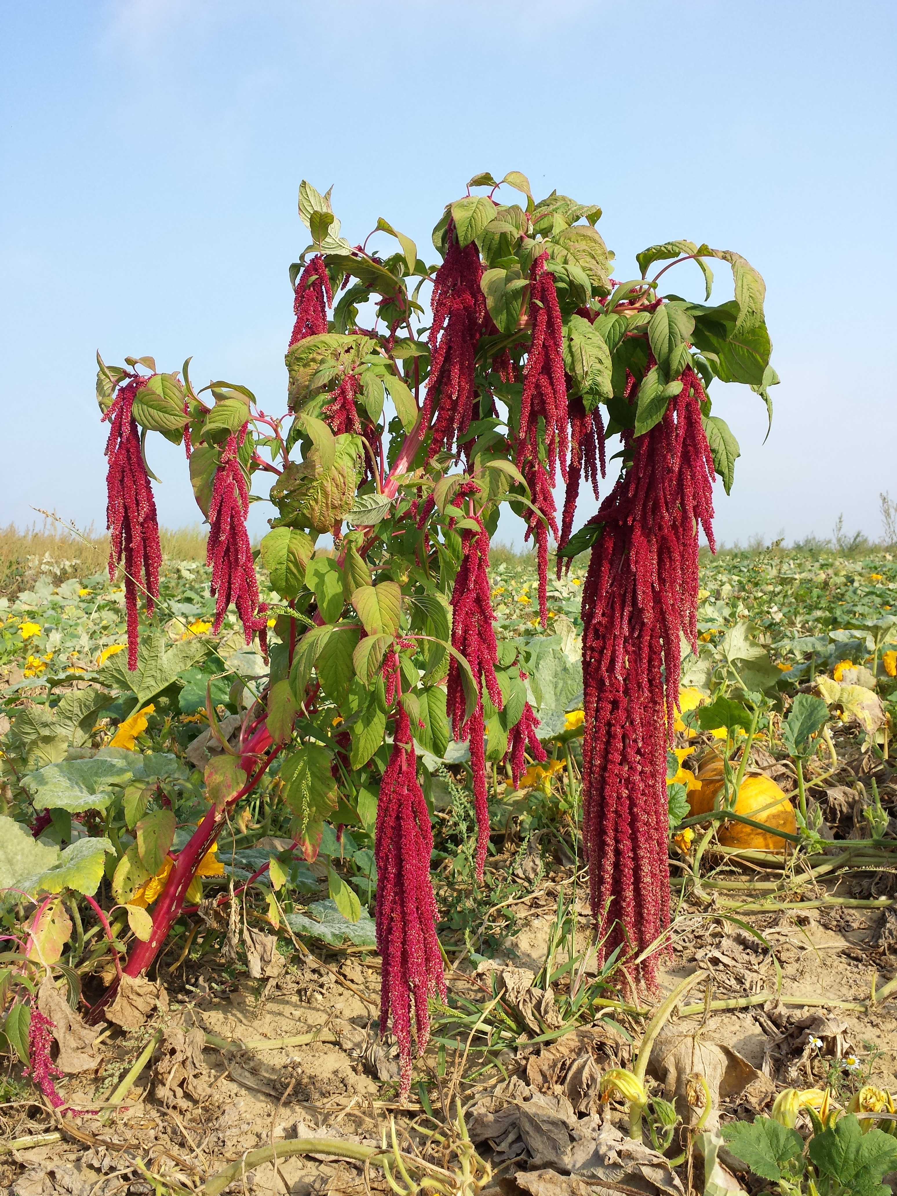 Habitus Taxonym: Amaranthus caudatus ss Fischer et al. EfÖLS 2008 ISBN 978-3-85474-187-9 Location: to the south of Schleinbach, district Mistelbach, Lower Austria - ca. 275 m a.s.l. Habitat: field with pumpkins